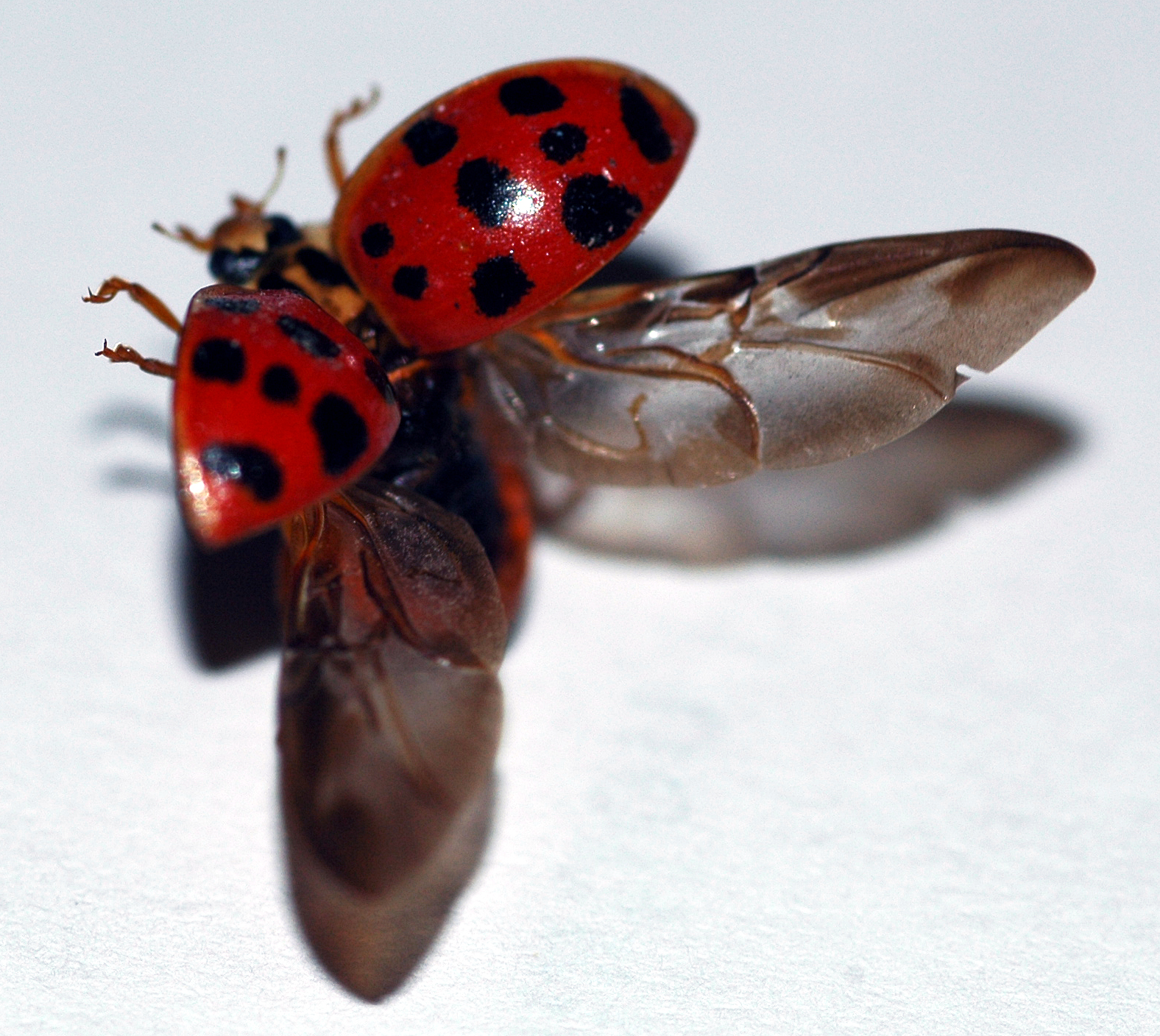 Lady beetle (unidentified Coccinellidae species) about to take flight